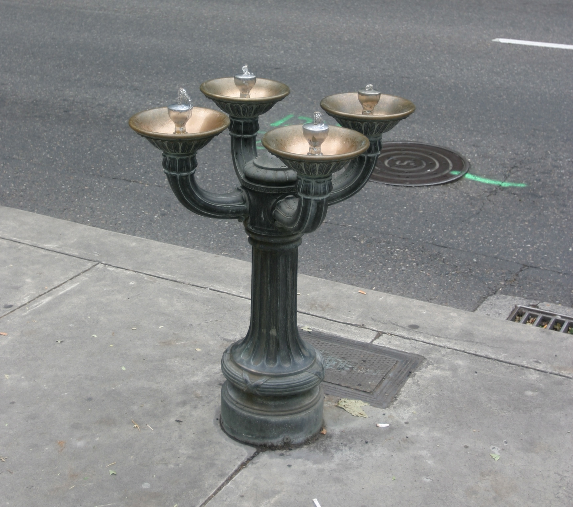 One of the 40 "Benson Bubblers" in downtown Portland, Oregon. The fountains installed in 1912 and were given to the city by local businessman and philanthropist Simon Benson.